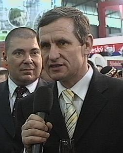 Czech senator and minister Jiří Čunek (* 1959) at Regiontour trade fair, Brno